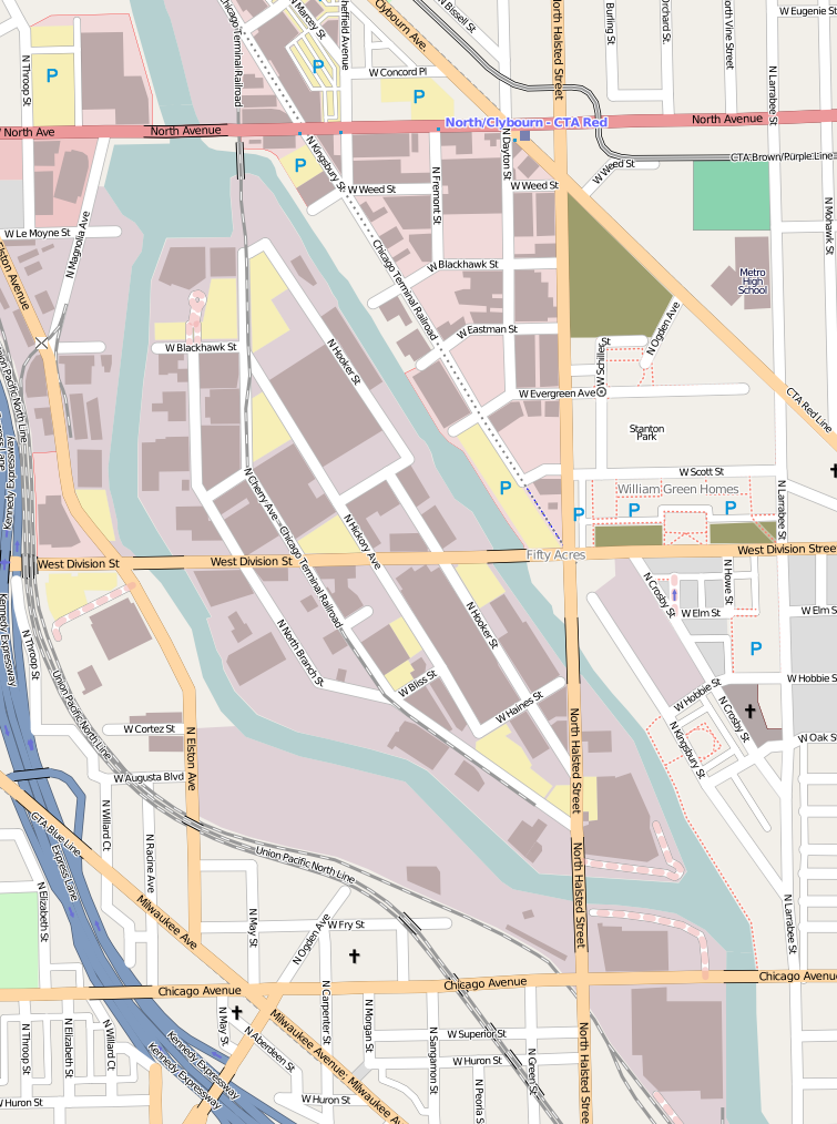 Street map of Goose Island in Chicago, Illinois, USA